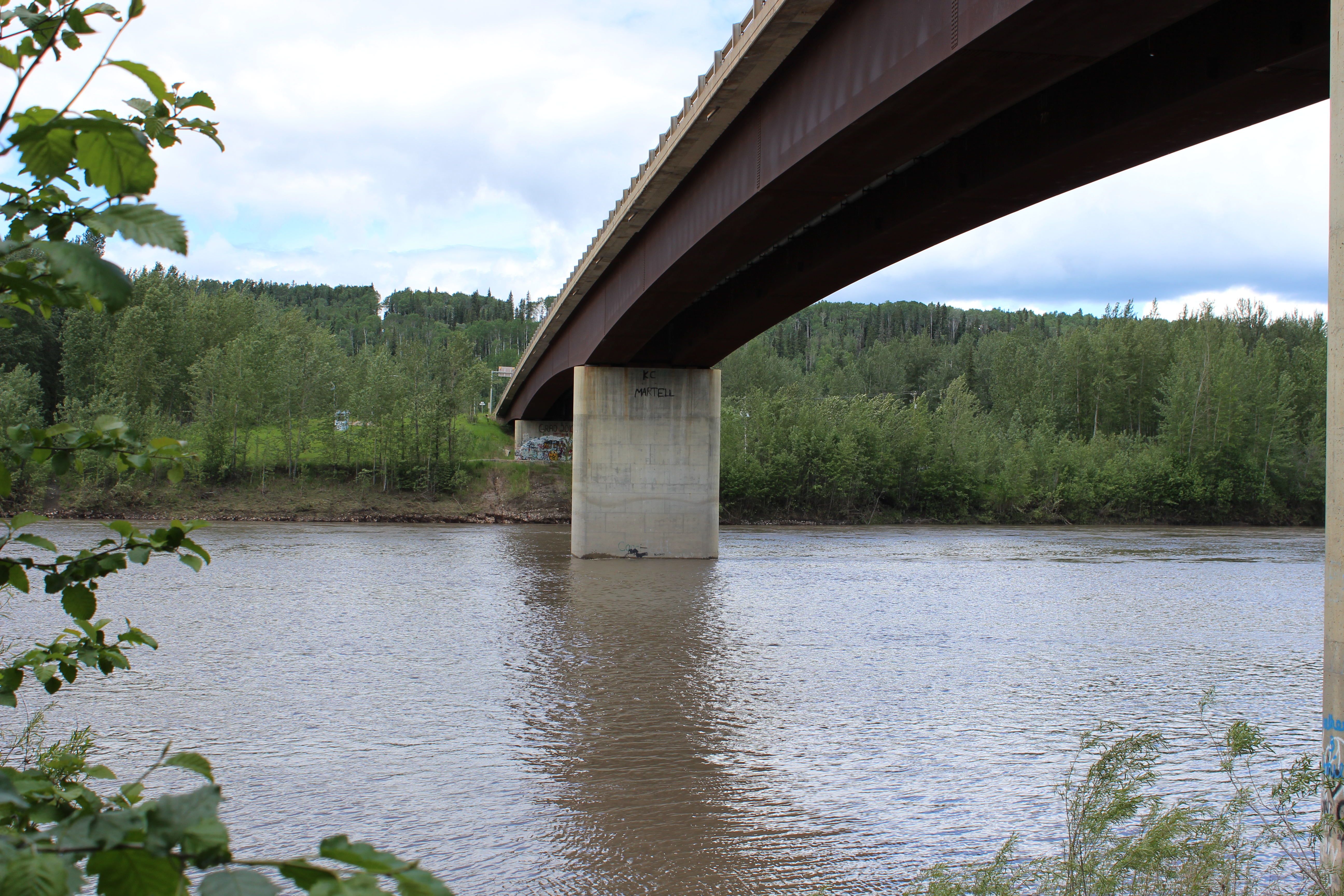 River